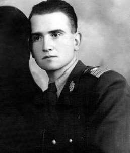 Toma Arnăuţoiu from the Romanian anticommunist resistance group "Haiducii Muscelului".